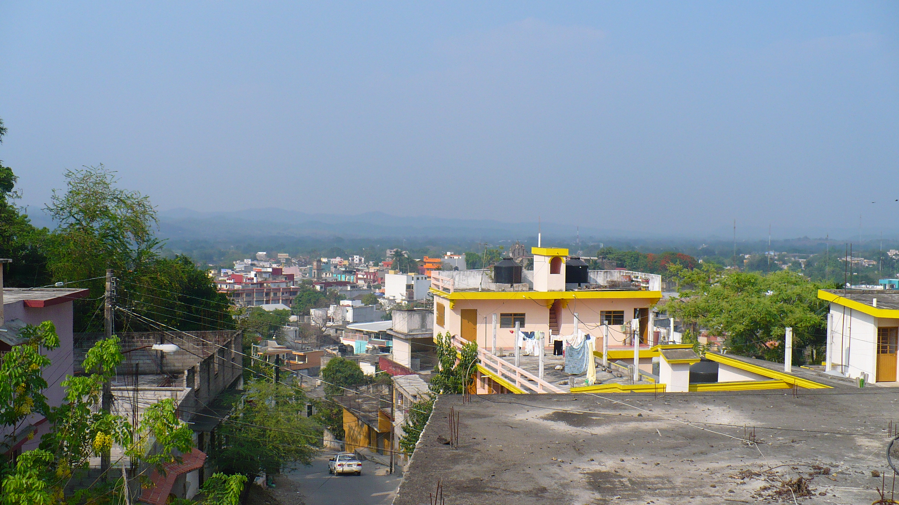 Huejutla View's From Cemetery